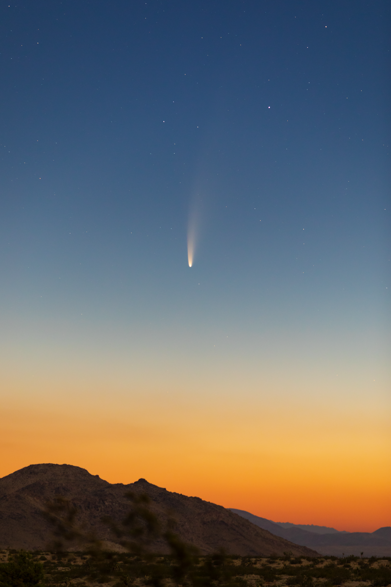 This photo of comet C/2020 F3 NEOWISE was taken from Landers, California in the United States on 07.07.2020 at 4:29 AM PDT using a Canon EOD 5D Mark IV camera and EF 200mm lens.